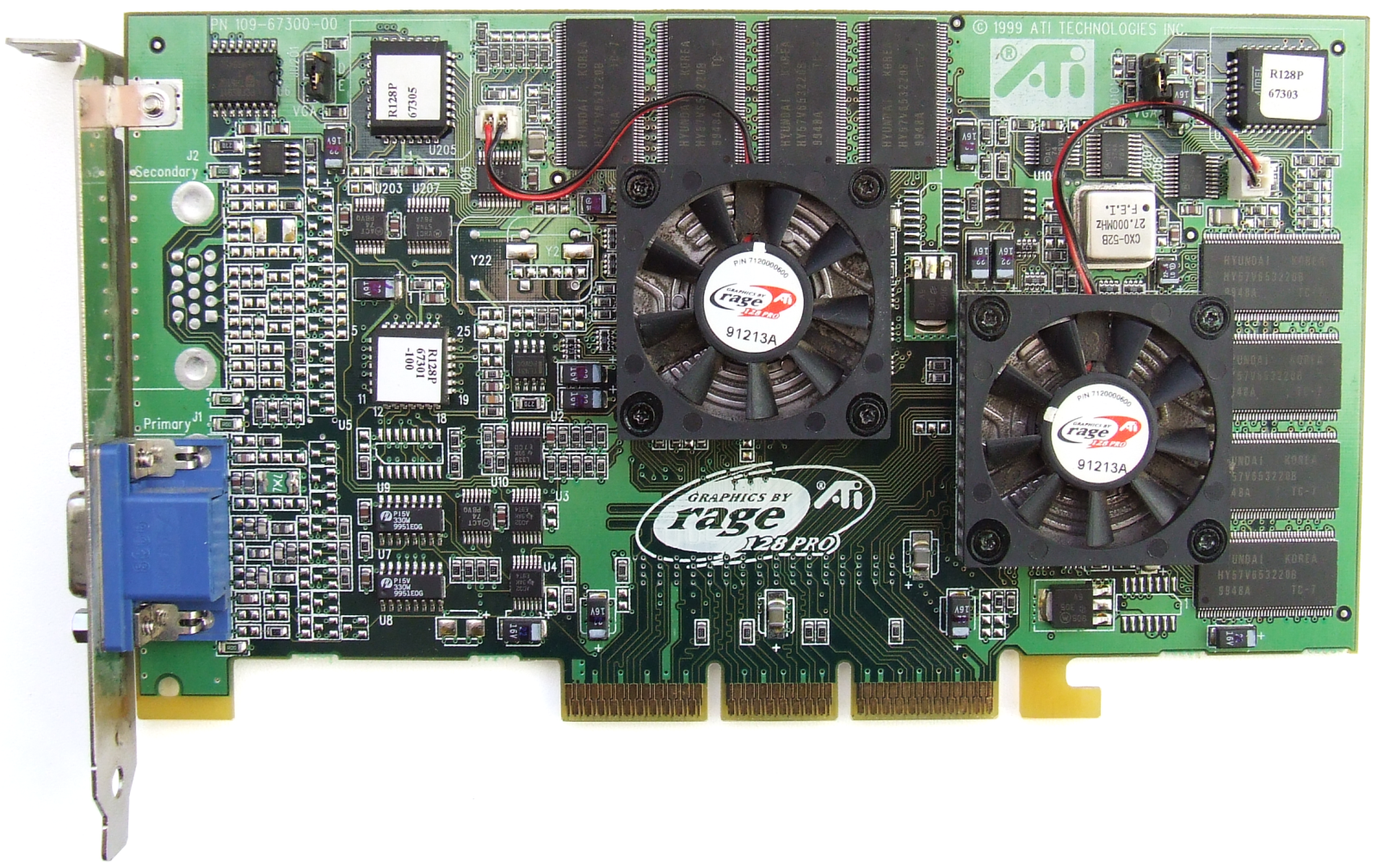 ATi Rage Fury MAXX (2x 32 MB) based on a pair of Rage 128 Pro GL graphics processing units. They split the workload by using Alternate Frame Rendering (AFR).